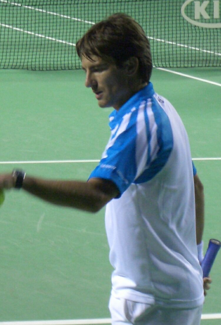 Tommy Robredo during his second-round match at the 2006 Australian Open. He played Dmitry Tursunov. Robredo won.